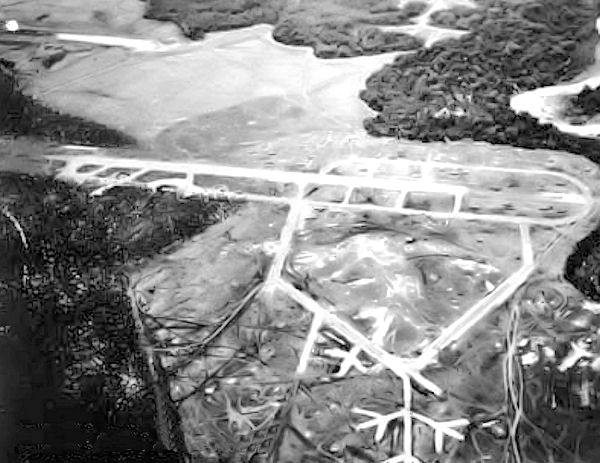 Henderson Field - Guadalcanal, Solomon Islands - 11 April 1943